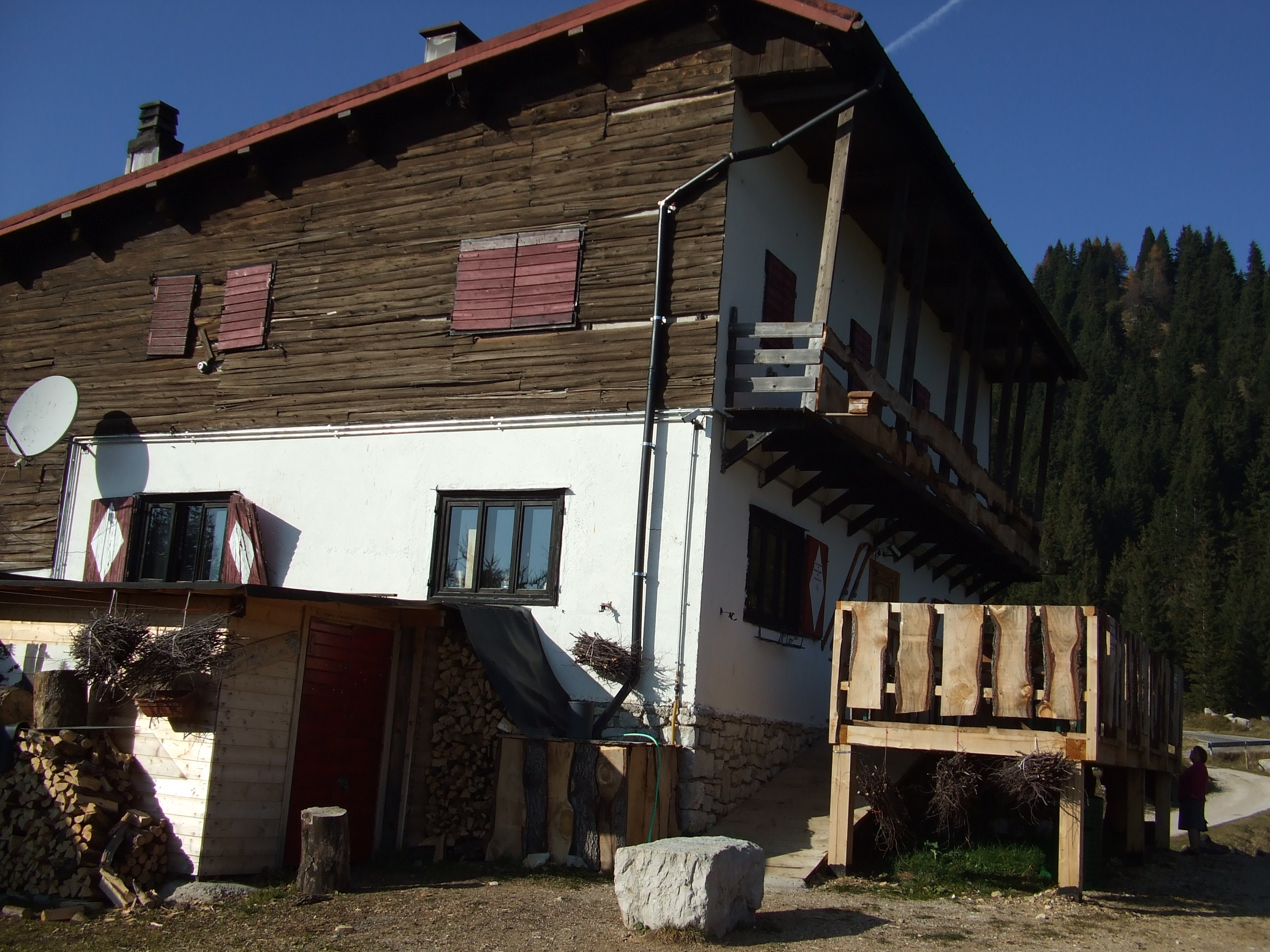 Rifugio Valbona, Veneto, Northern Italy.